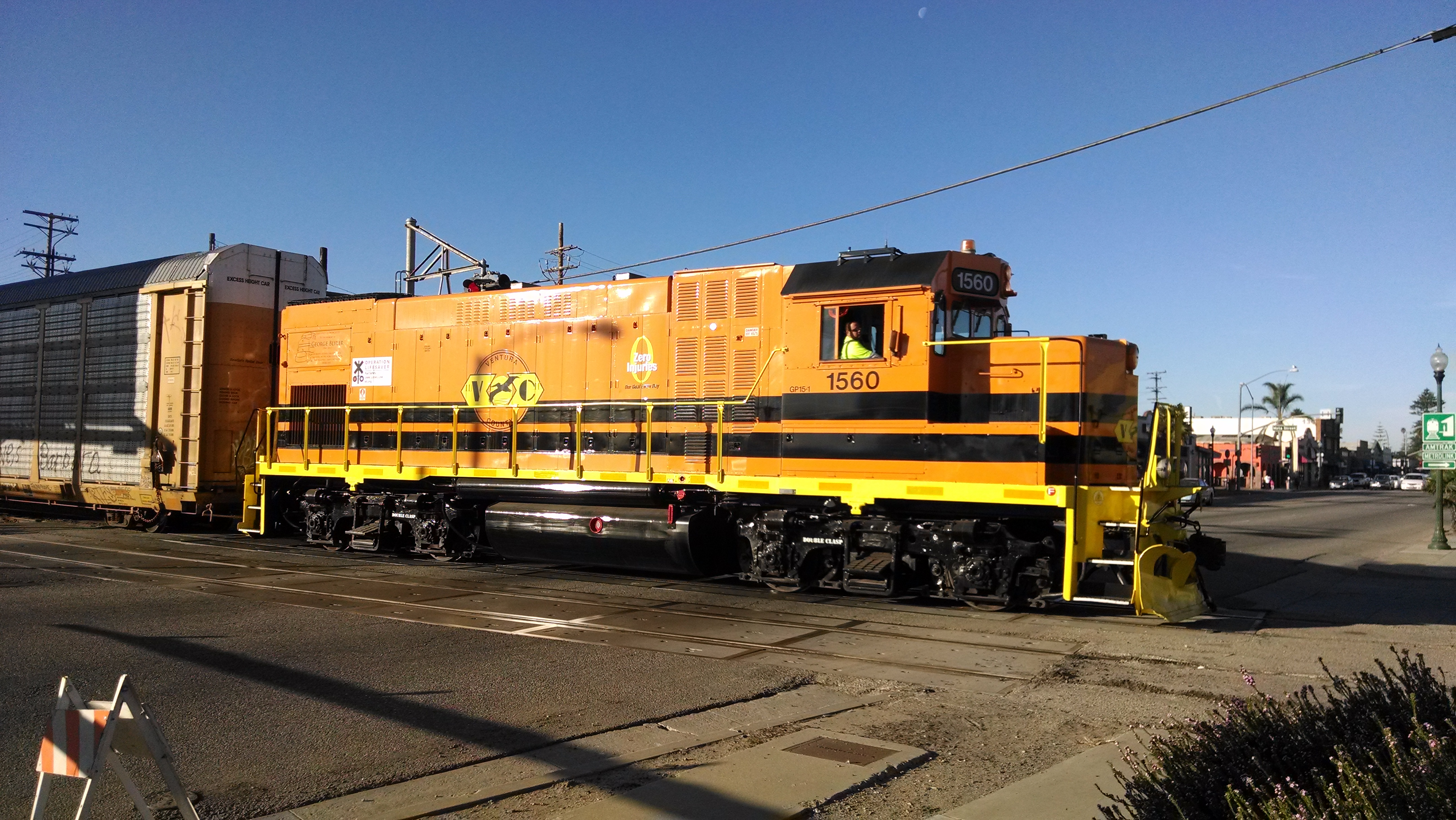 5th Street, Oxnard